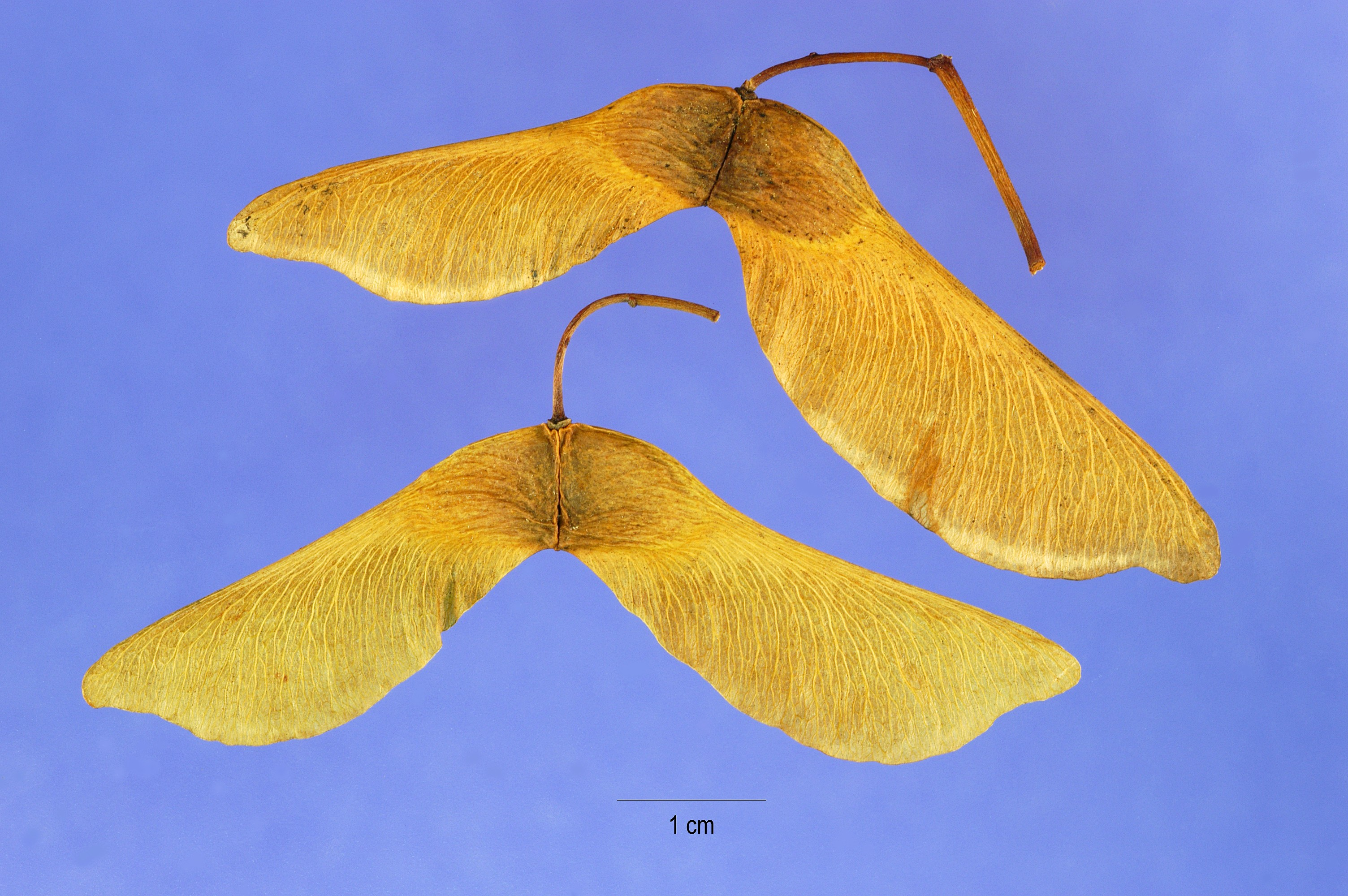 Seeds of Acer platanoides